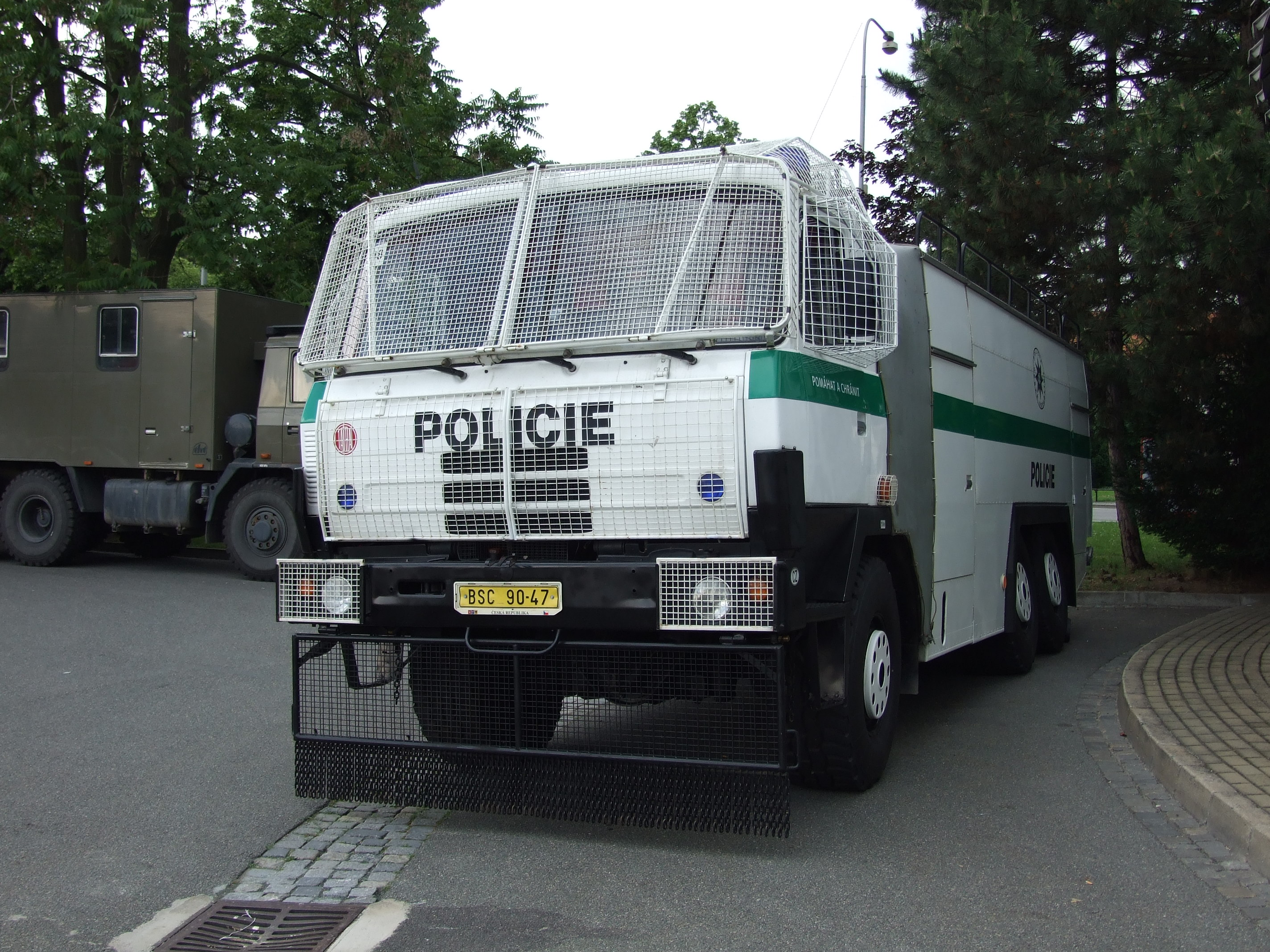 Anti-riot truck Tatra T815 in Brno Autotec 2008 fair